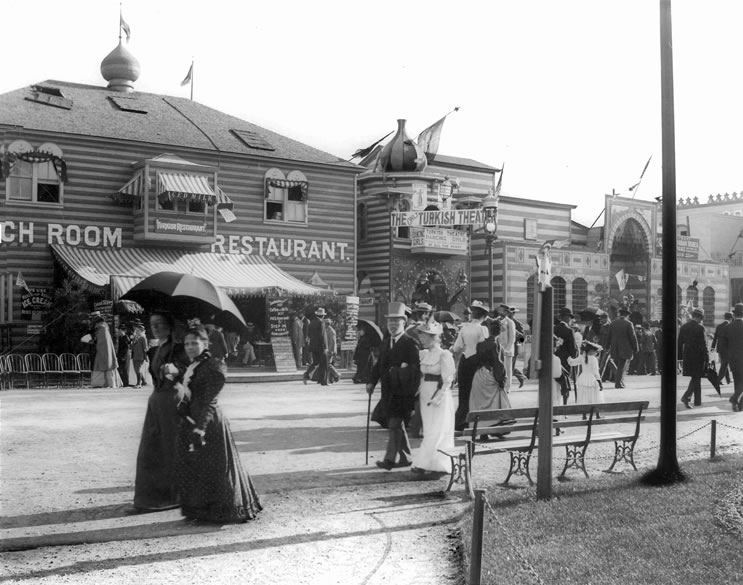 The 'Turkish Village' at the World's Columbian Exposition — also known as The Chicago World's Fair in 1893.